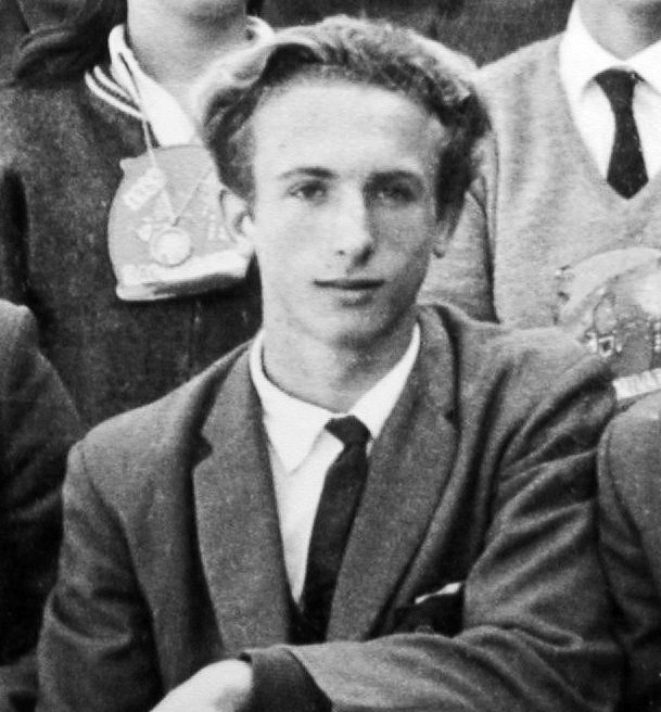 Klaus Zieschank, Víctim of the Argentinian dictatorship